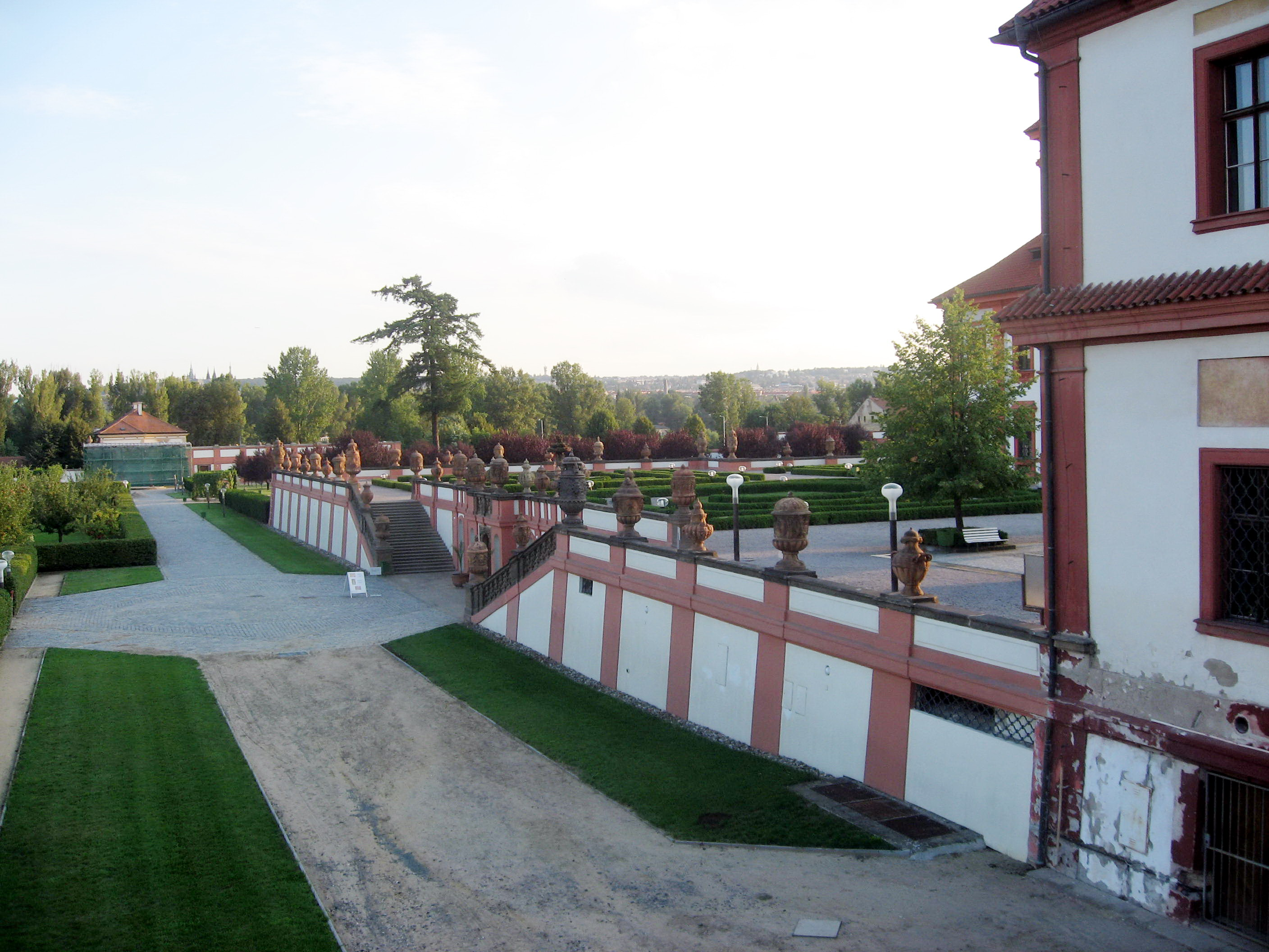 Troja Castle